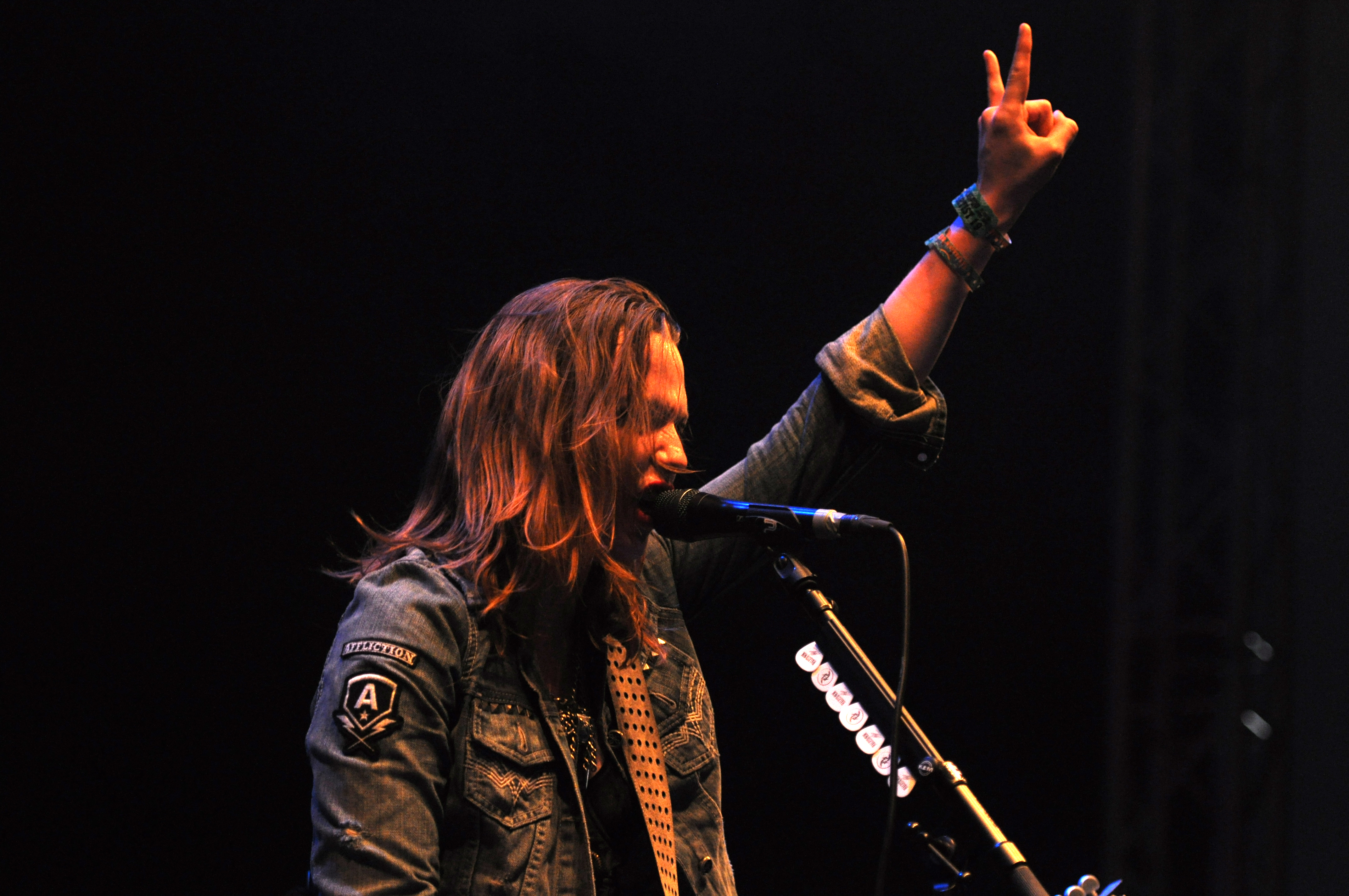 Halestorm at Paaspop 2014